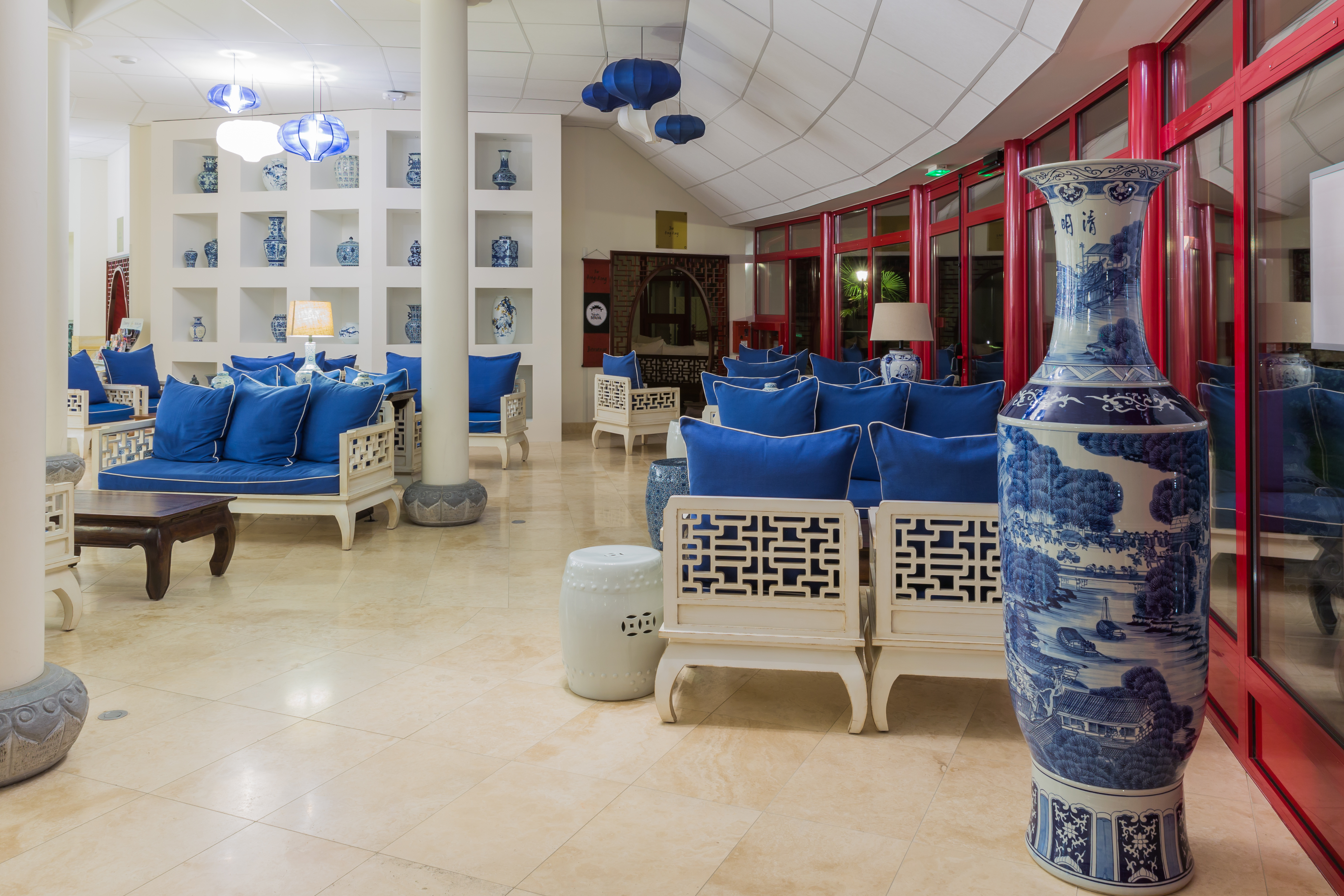 Hotel lobby Les Pagodes de Beauval to Seigy, France.